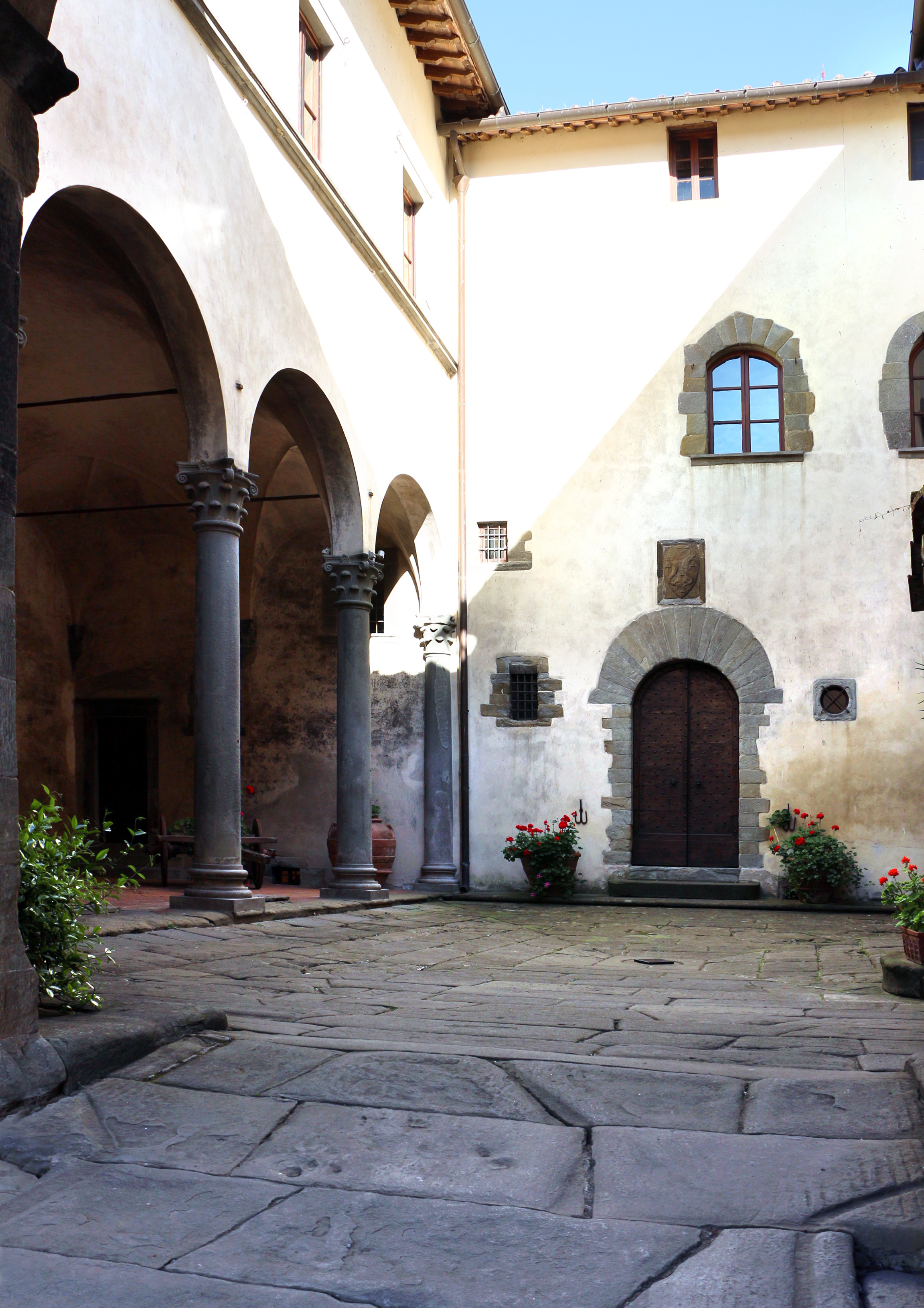 Castello del Trebbio (Santa Brigida, Pontassieve)